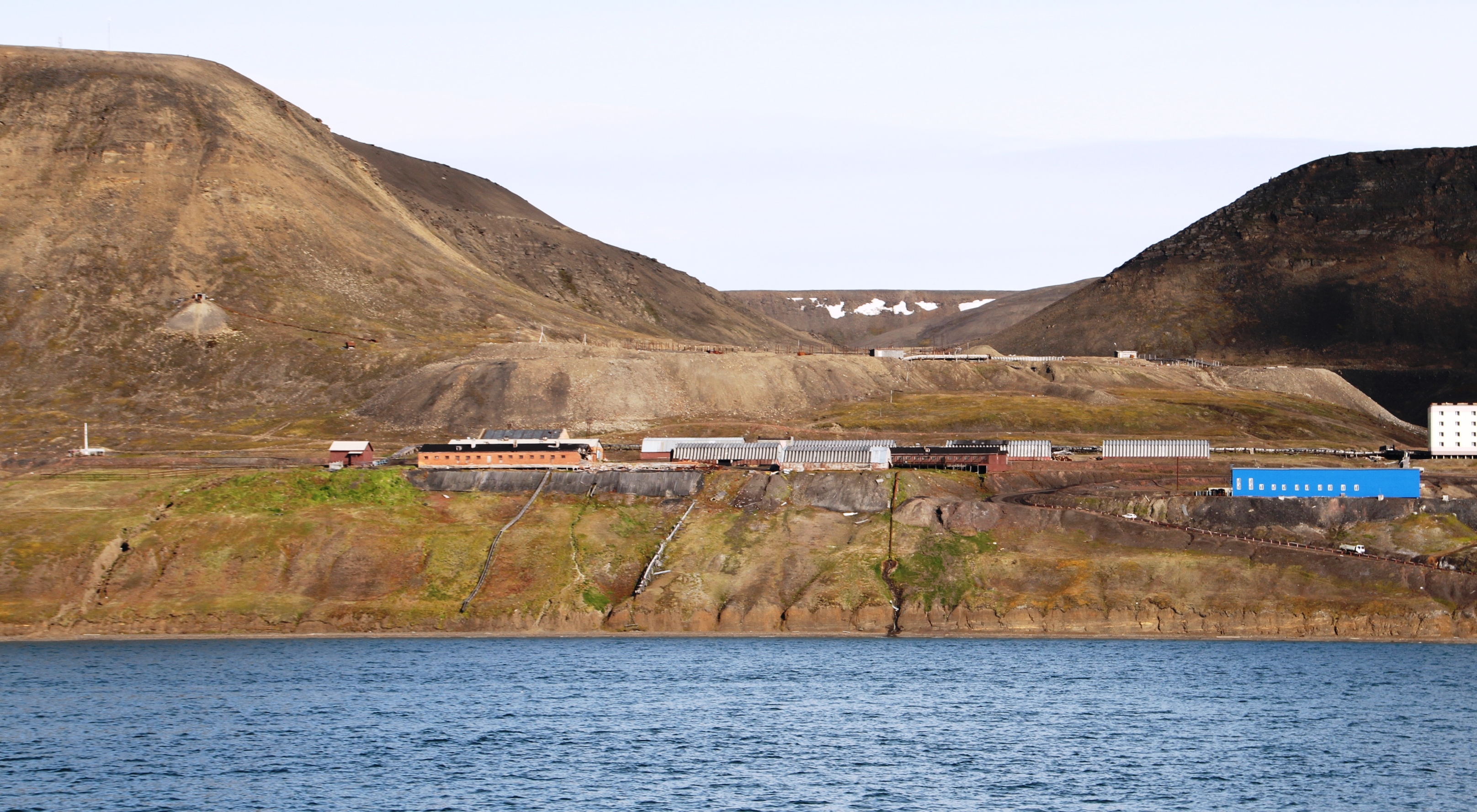 Image of Barentsburg, the western (Russian) settlement of the Isfjorden bay, Spitsbergen, Svalbard. This image shows the northnern part of town with the Gladdalen valley, and towards left the railroad running north towards Heerodden. The railroad is Norwegian Cultural Heritage Site number 99935.